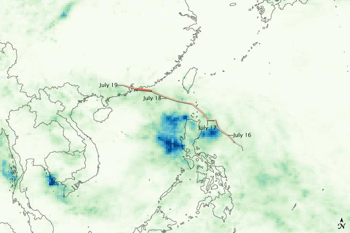 Typhoon Molave tracked across the western Pacific Ocean between July 16 and July 19, 2009, dropping heavy rain in its path. The area of heaviest rain, shown in dark blue, is around the Philippine Islands. Molave caused extensive flooding in the northern Philippines. The heaviest rain is also concentrated south of the center of the storm. A photo-like image of the storm shows that Molave was not symmetrical. More clouds gathered on the south side of the eye, corresponding to the rainfall pattern shown here. The image was based on data from the Tropical Rainfall Measuring Mission (TRMM) satellite, which carries a unique space-based precipitation radar. The detailed measurements from TRMM’s precipitation radar are used to calibrate less detailed measurements from other satellites in the Multisatellite Precipitation Analysis. This image shows rainfall totals over the western Pacific Ocean as recorded by the Multisatellite Precipitation Analysis between July 16 and July 19, 2009.